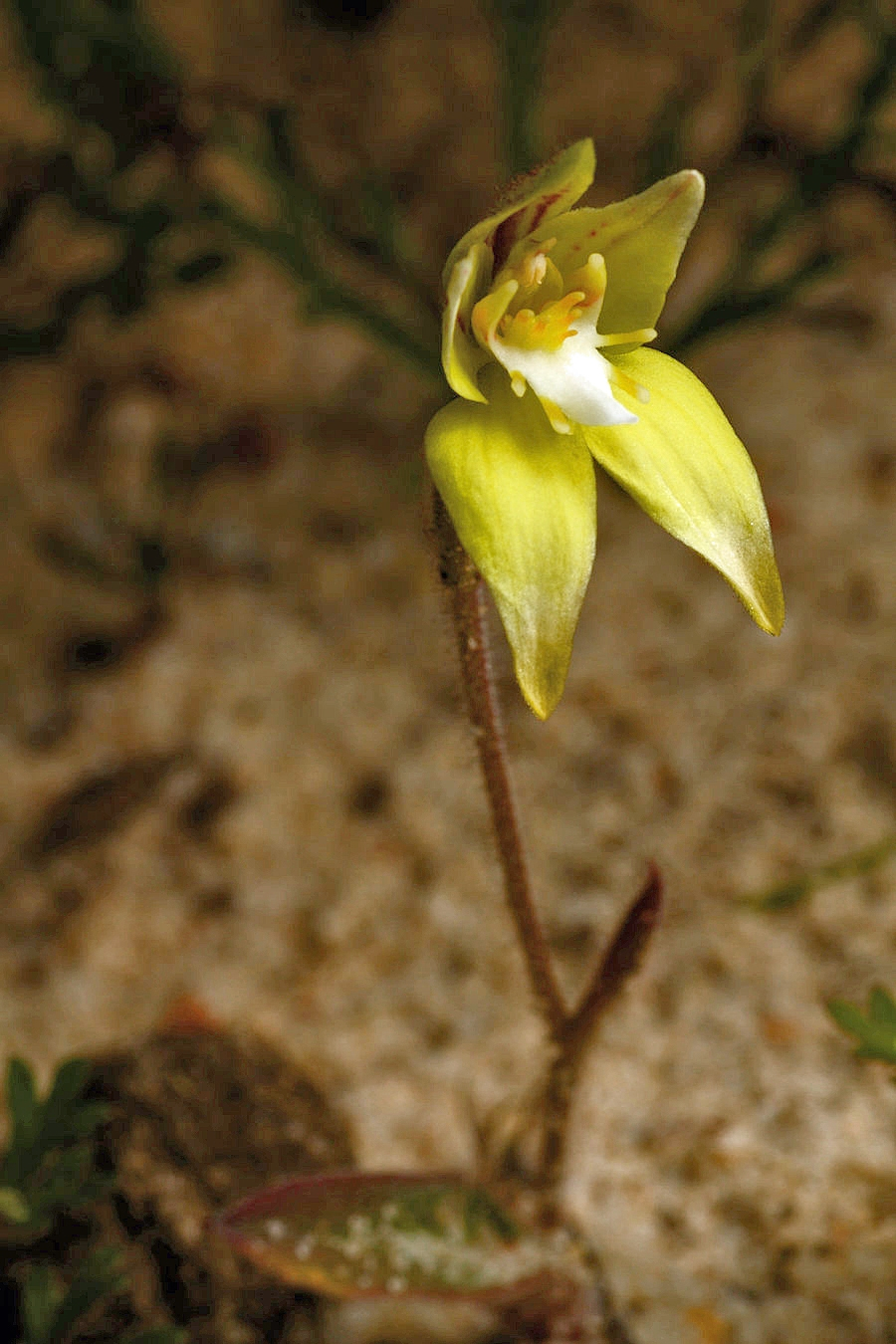 Caladenia flava Mingenew Western Australia